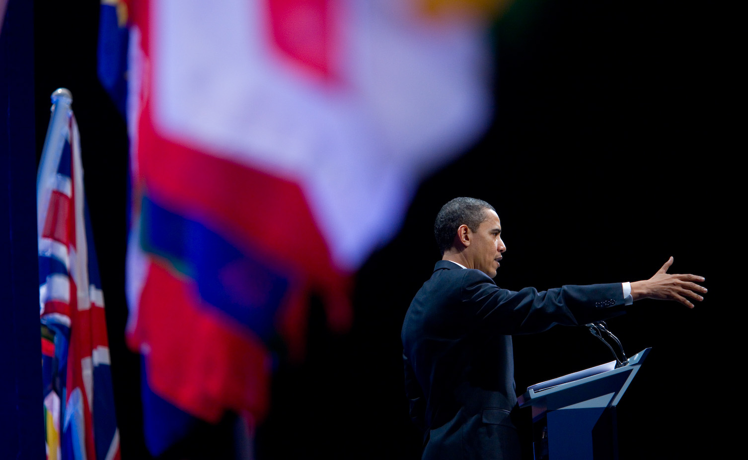 President Barack Obama answers questions during a press conference Thursday, April 2, 2009, following the G20 Summit in London.